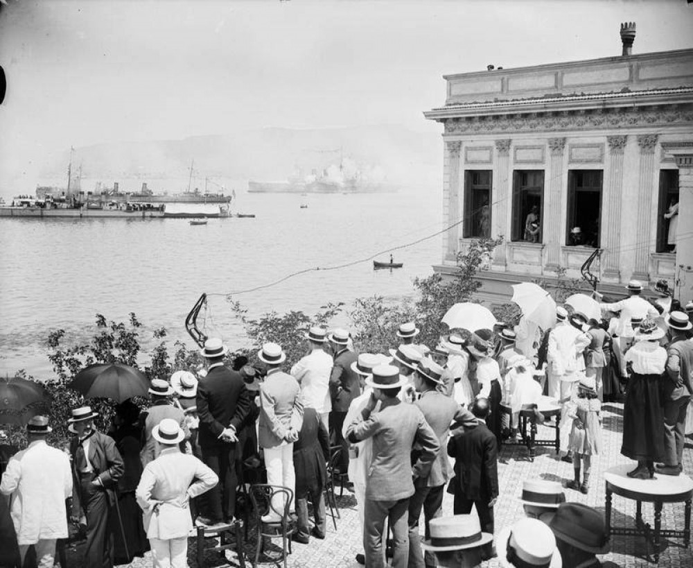 The Greek population of Smyrna watching from terrace of local Greek sport club “Sporting” for entering of Greek navy ships in the Bay of Smyrna. May 2, 1919